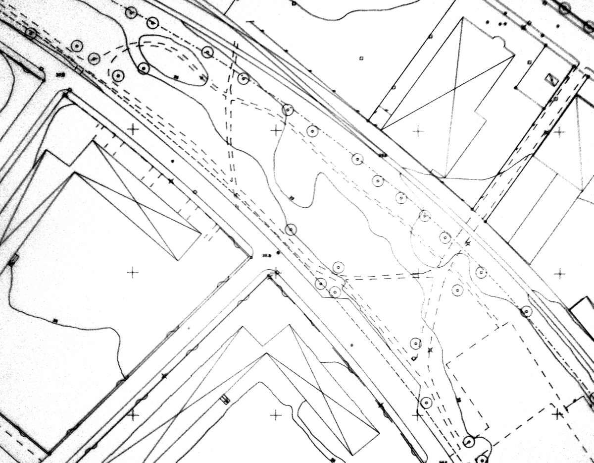 Example of an Large Scale Base Map in scale 1:400 over a part of City of Lund, Sweden.